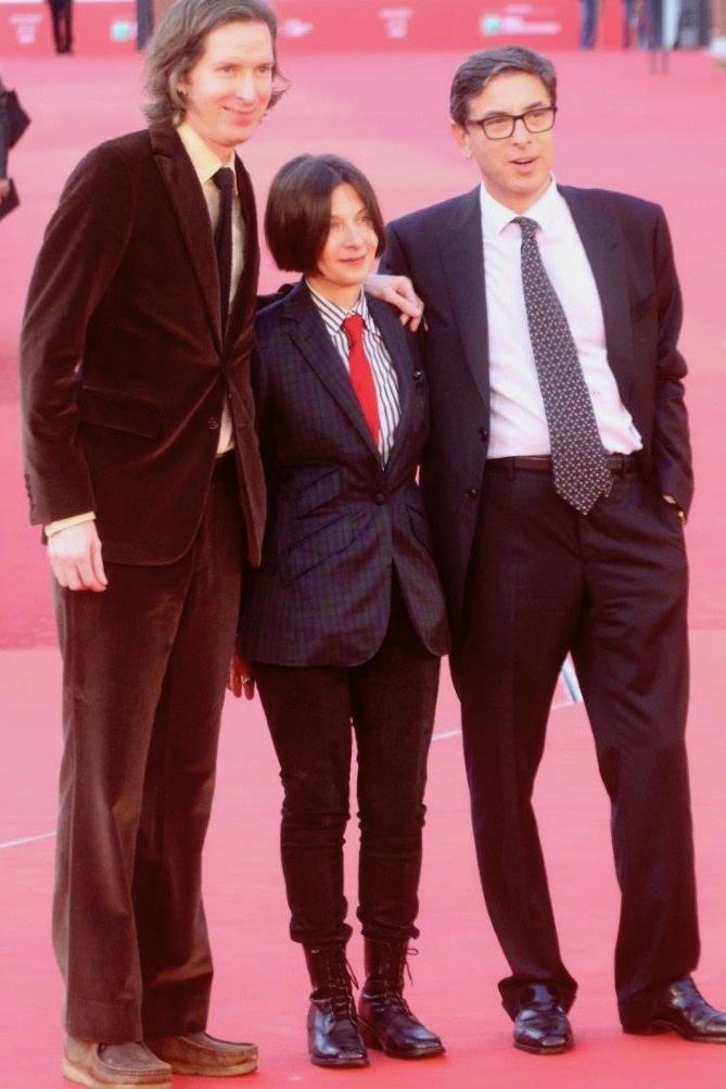 Festa del Cinema di Roma 2015